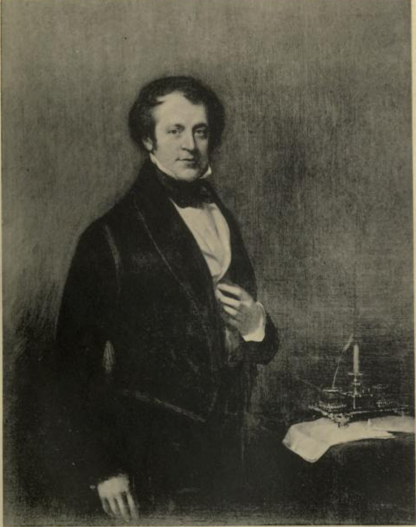 Portrait of George Faulkner, first chairman of the trustees of Owens College, Manchester, taken from a painting by Benjamin Rawlinson Faulkner. The original photograph was taken by Garside & Co., Manchester.